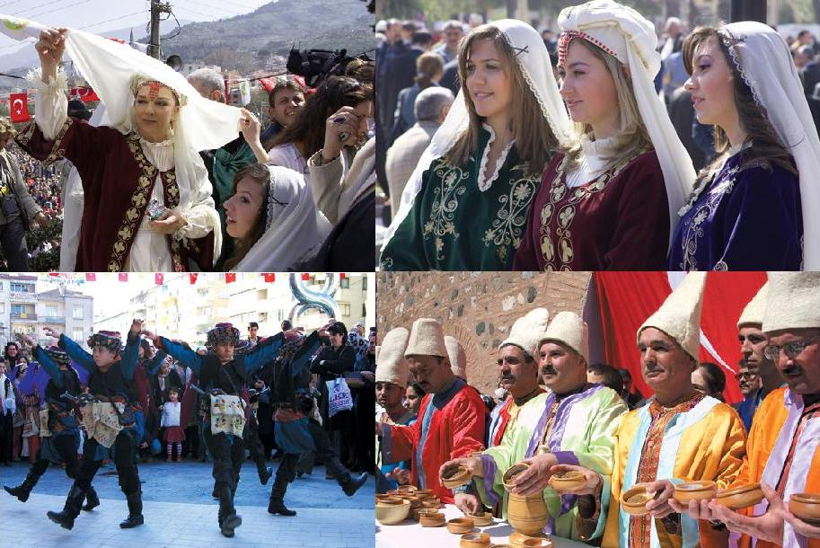 2010 Mesir Macunu Festivali (Mesir Paste or Majun Festival) Manisa, Turkey. Assemblage of four pictures with, (top left), the distribution of the paste by and actress incarnating Ayşe Hafsa Sultan and an actor incarnating Merkez Efendi, (bottom right), preparation of the paste, (top right) (bottom left), local participants and dancers.